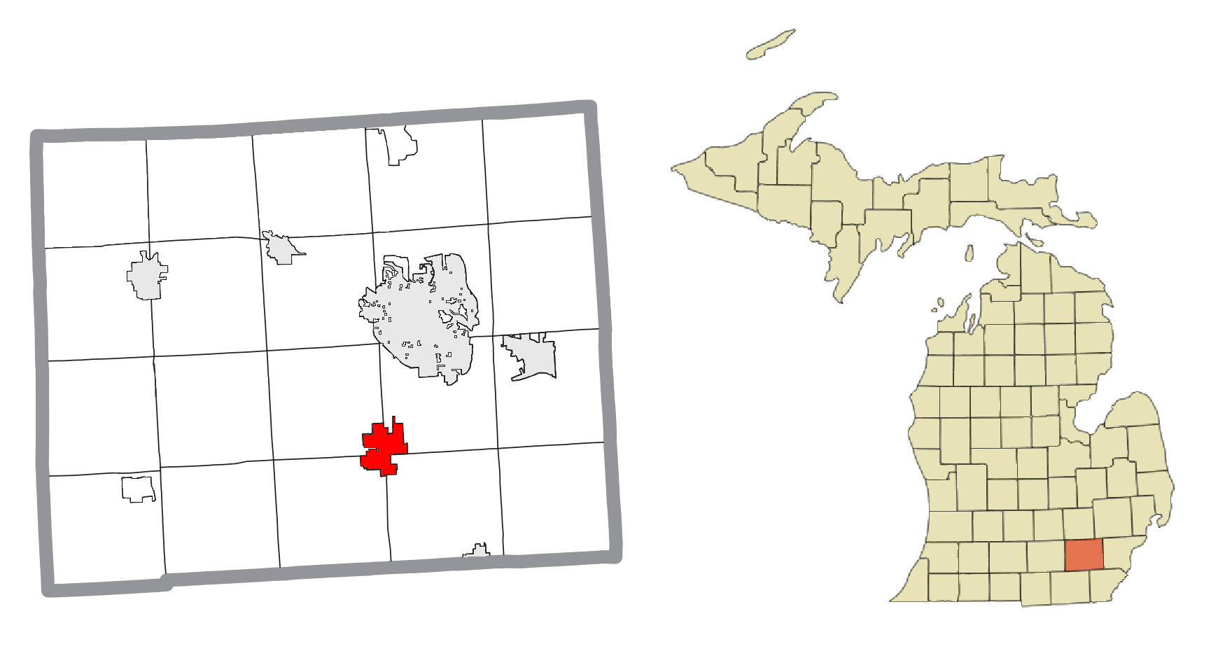 Saline, MI